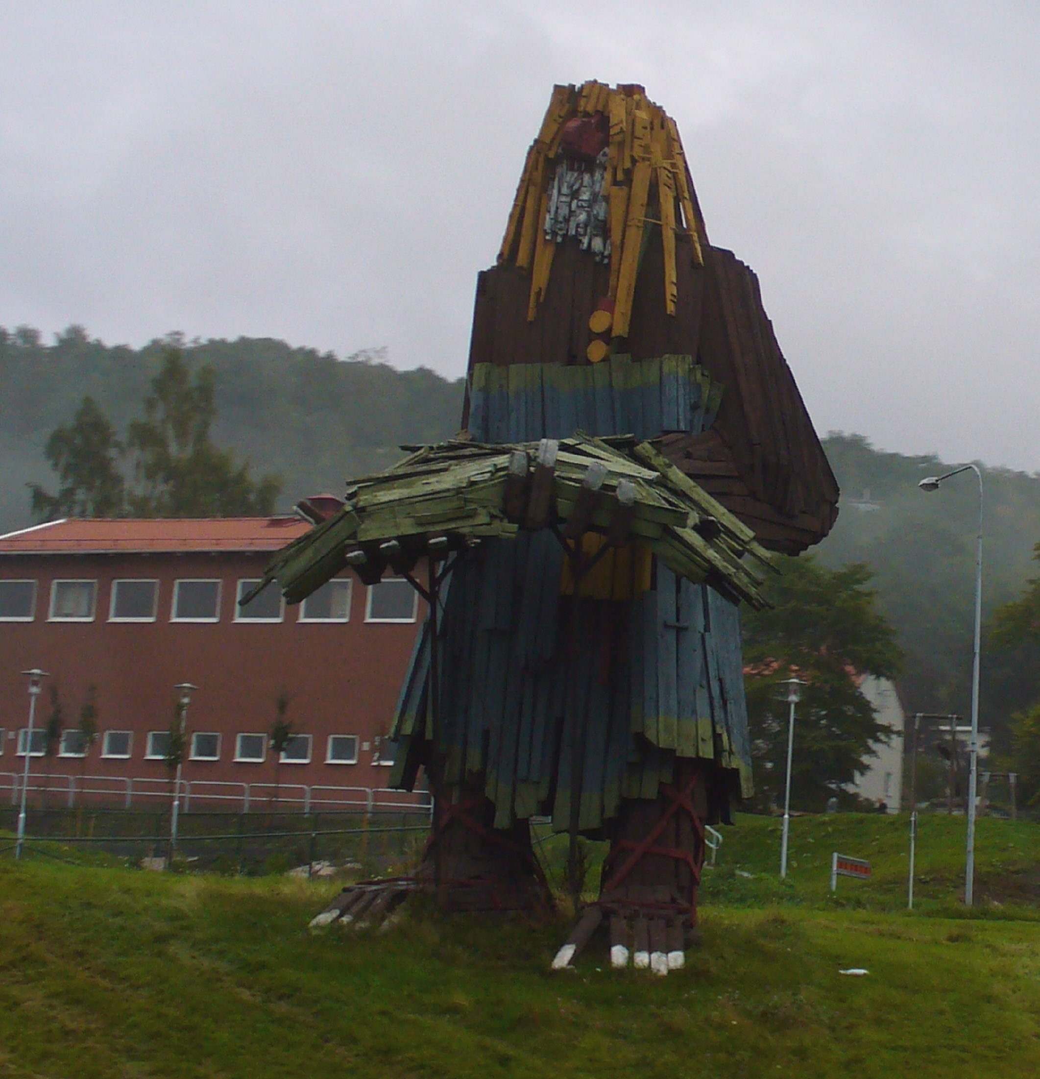 Vist, the Giant, by the E4 highway in Huskvarna. Sculpture by artist Calle Örnemark.